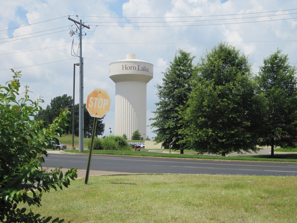 Watertower in Horn Lake, Mississippi